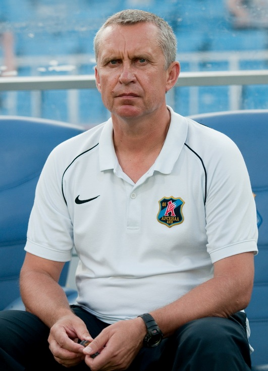 Leonid Kuchuk